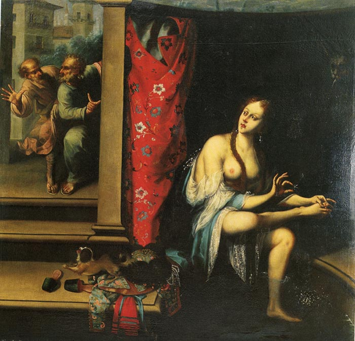 Susanna and the Elders